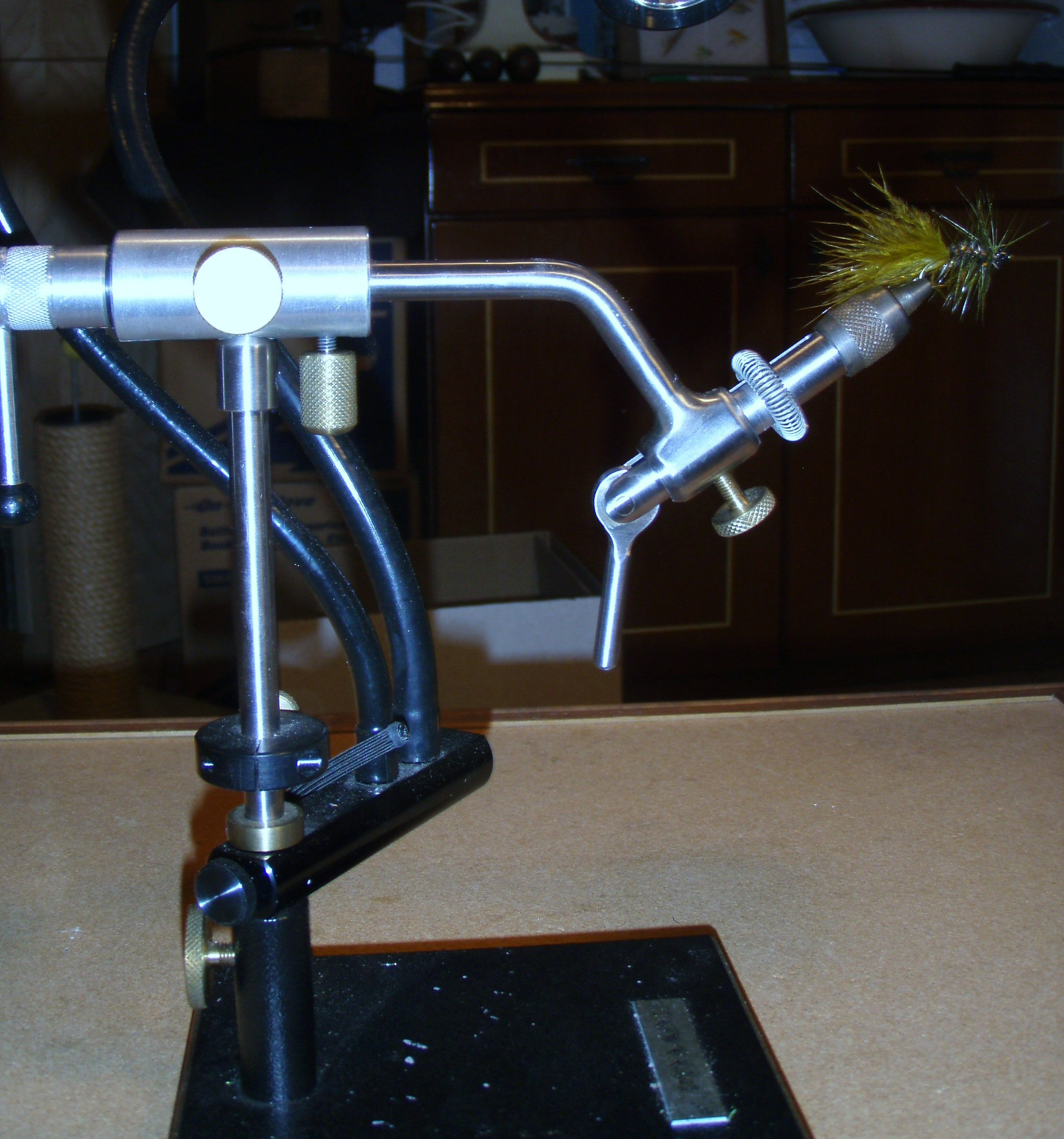 Illustrative Fly Tying Vise